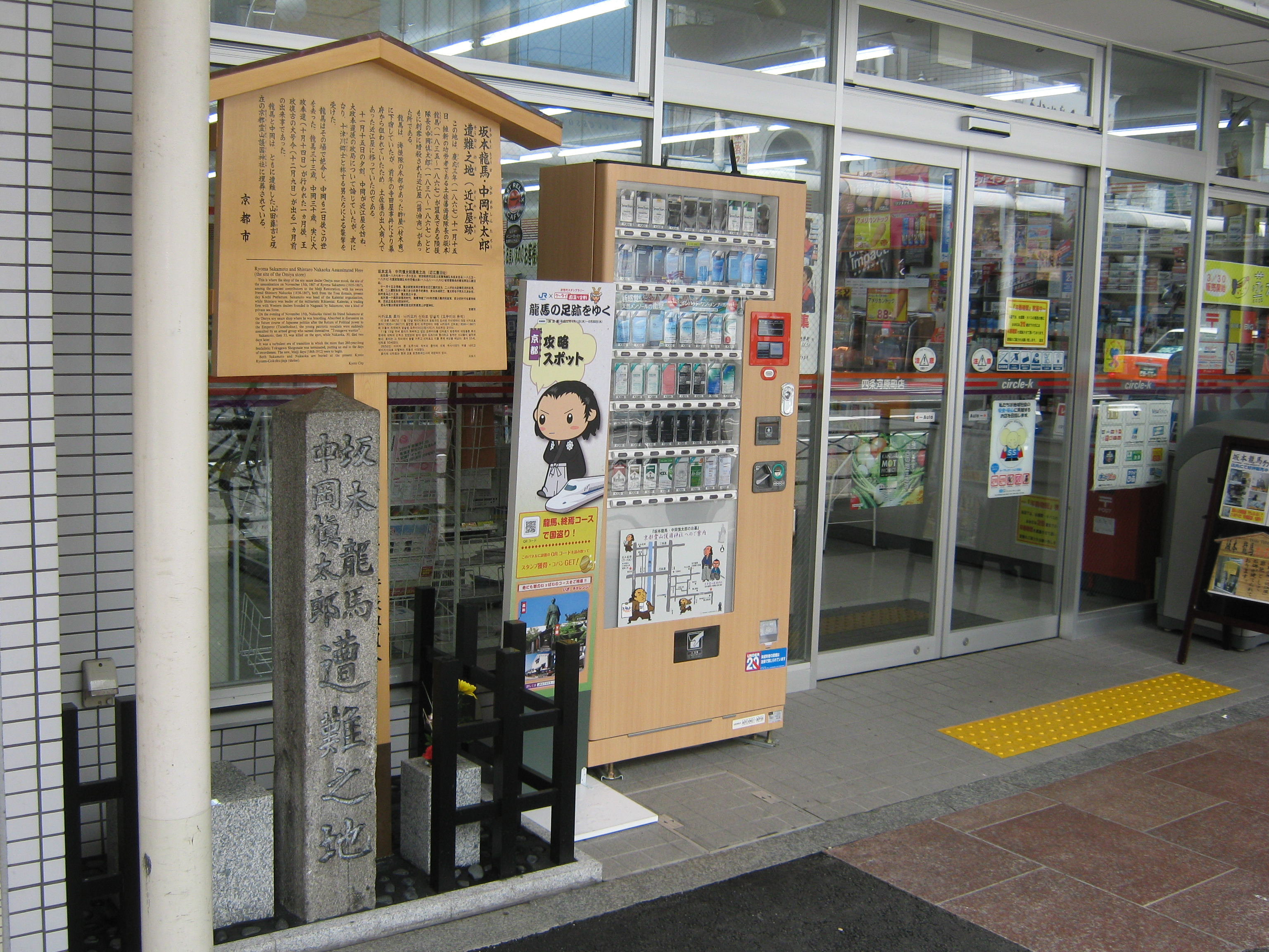 Former Oumiya house, now convenience store in Kyoto. Ryōma Sakamoto and Shintarō Nakaoka were assassinated here in Dec. 10 1867. 中文（台灣）: 位於日本京都府京都市河原町的近江屋舊址, 目前為便利商店. 坂本龍馬及中岡慎太郎於1867年12月10日(慶応3年11月15日)在近江屋遭暗殺, 史稱近江屋事件.